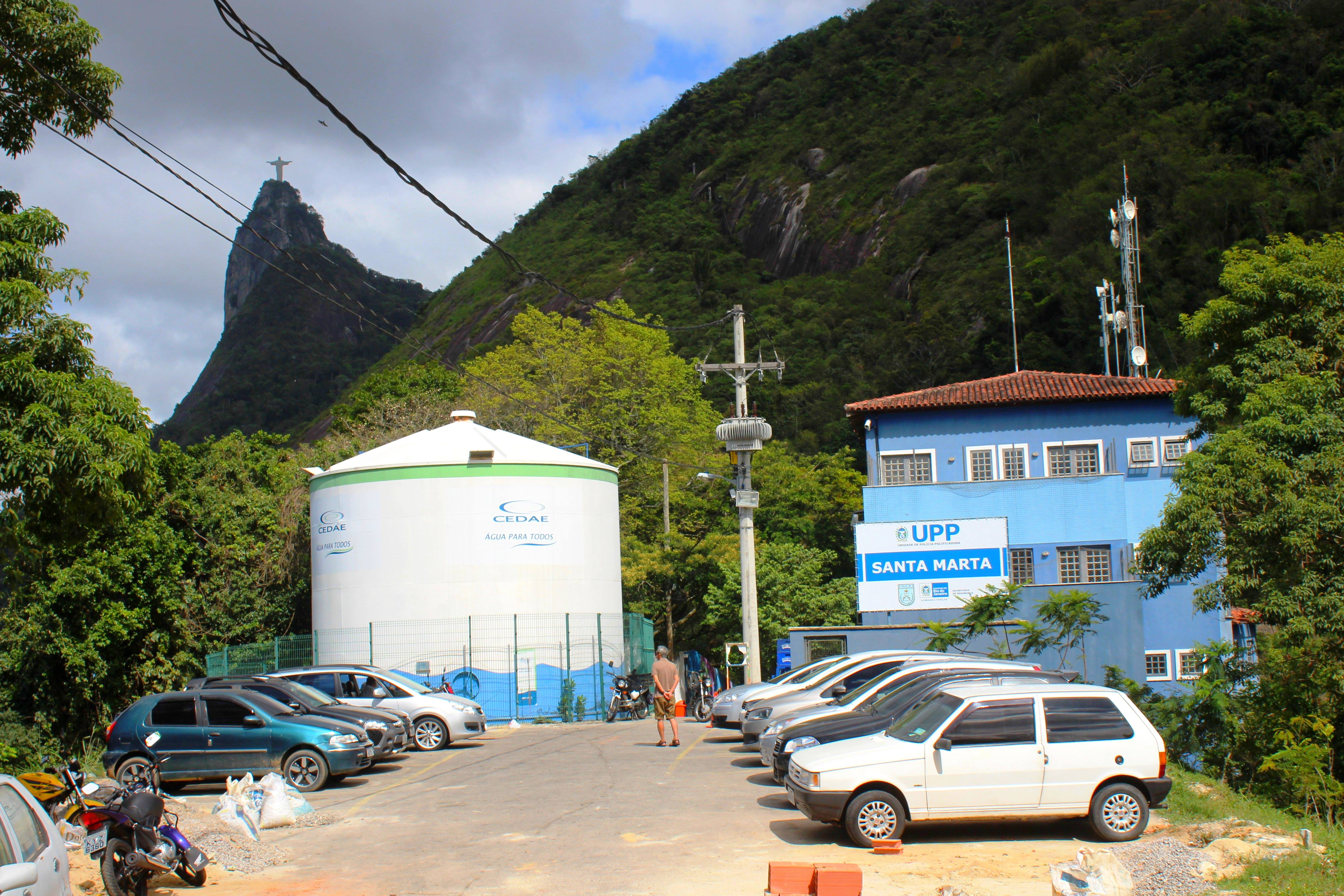 Beginning in 2008, Pacifying Police Units (Portuguese: Unidade de Polícia Pacificadora, also translated as Police Pacification Unit), abbreviated UPP, began to be implemented within various favelas in the city of Rio de Janeiro. The UPP is a law enforcement and social services program aimed at reclaiming territories controlled by drug traffickers. The program was spearheaded by State Public Security Secretary José Mariano Beltrame with the backing of Rio Governor Sérgio Cabral.